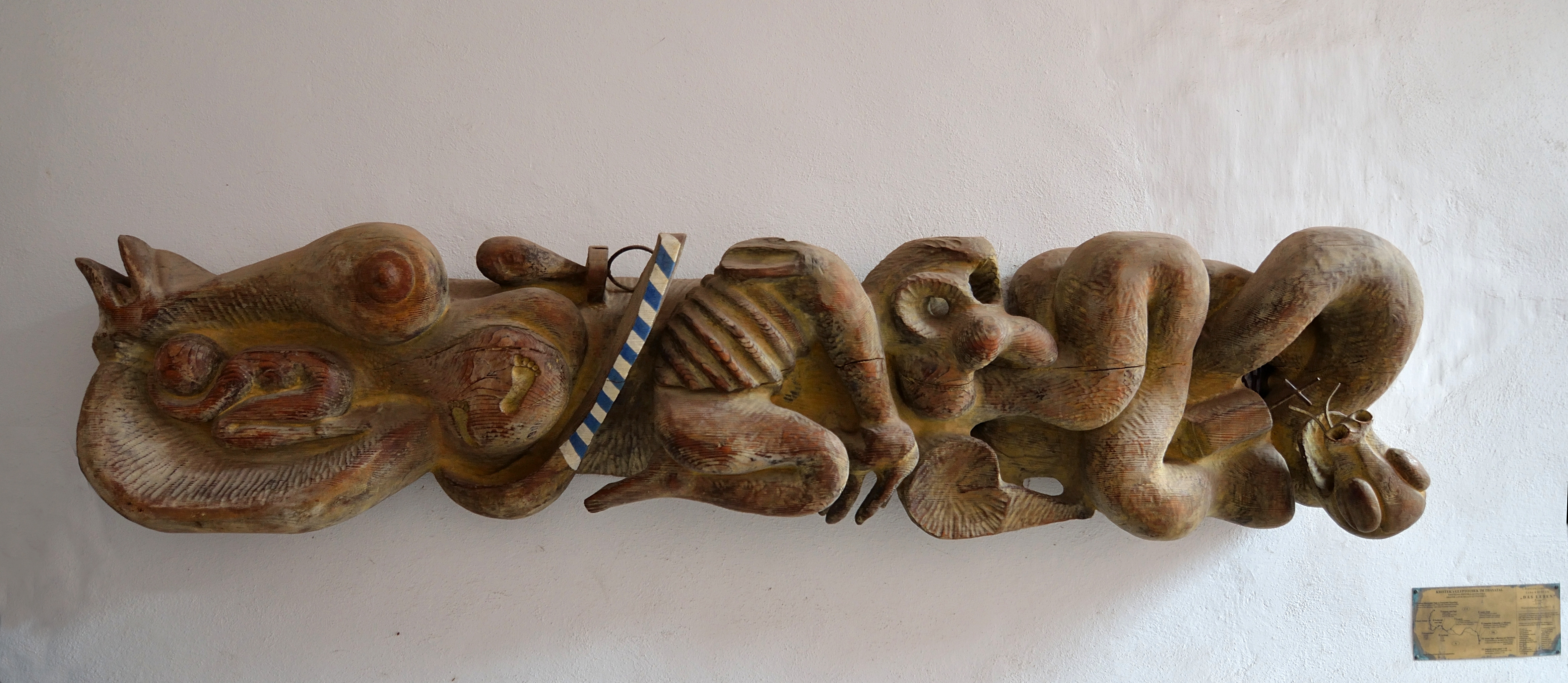 Lubo Kristek Das Leben / Život / Life (1971/72) Kristek's Glyptothek im Thayatal.